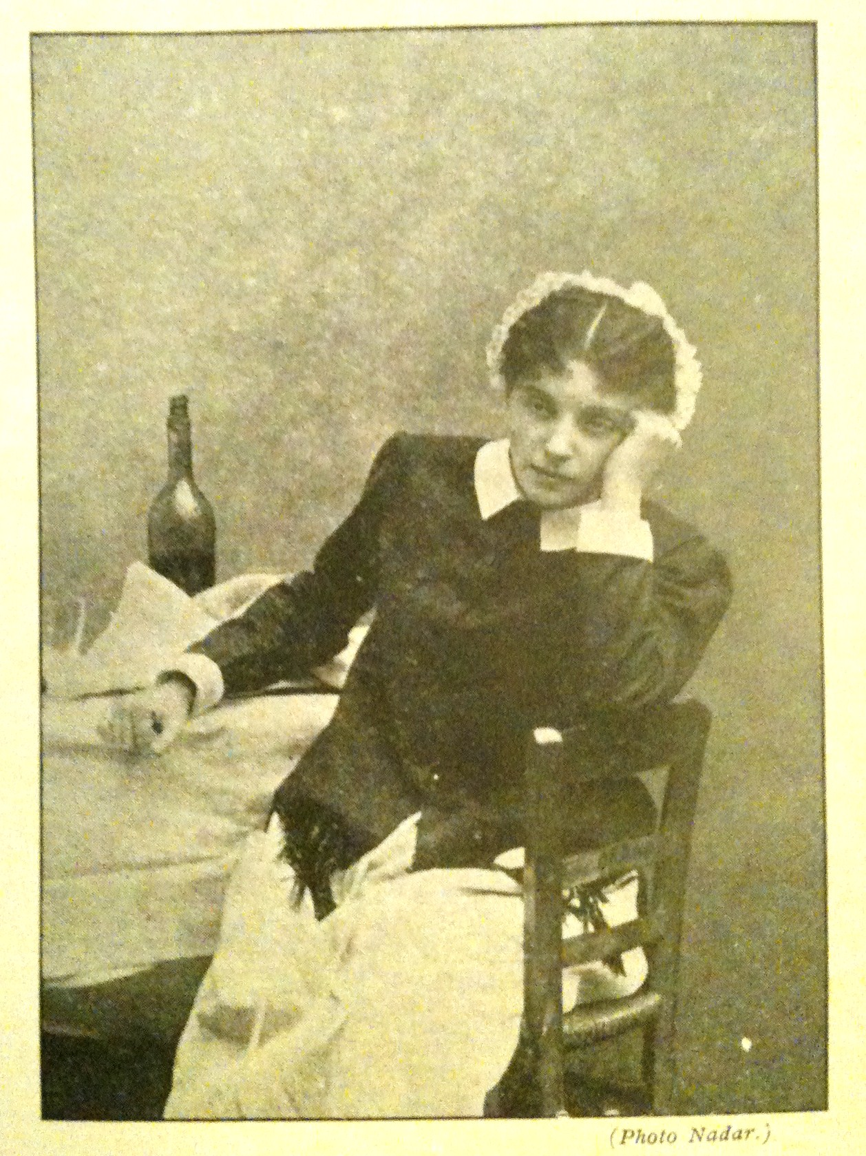 Réjane on stage by Félix Nadar in Germinie Lacerteux (Edmond et Jules de Goncourt), Théâtre de l'Odéon, 1889